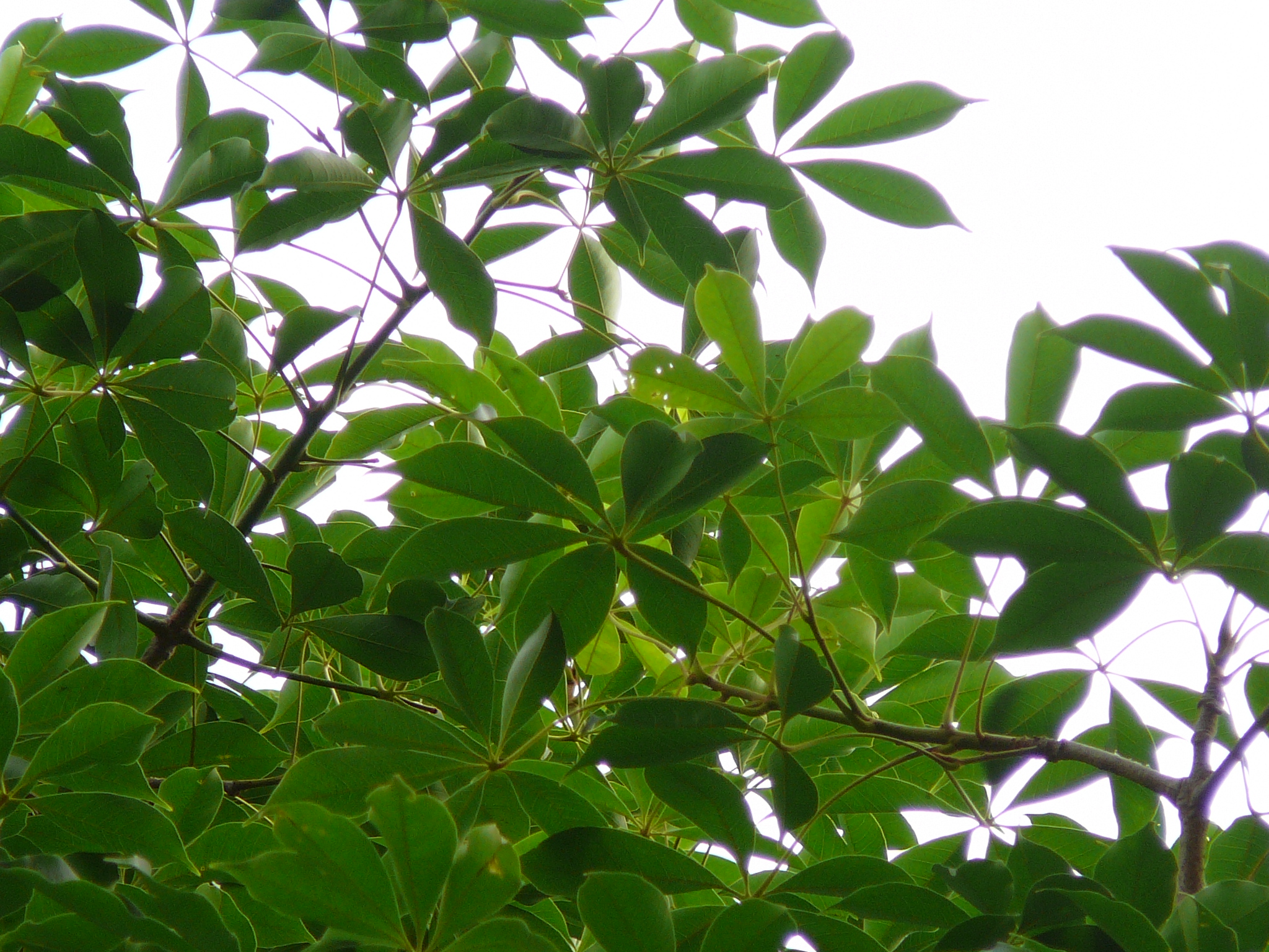 red-flowered silk cotton tree